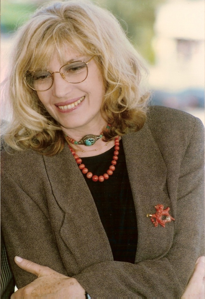 Monica Vitti